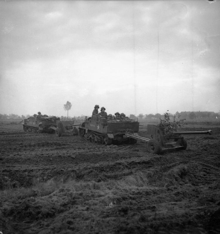 The British Army in North-west Europe 1944-45 Carriers and 6-pdr anti-tank guns of the 1st South Lancashire Regiment during the advance on Venraij, 17 October 1944.